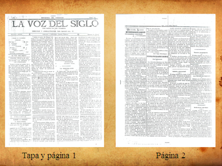 Tapa y página 1; y, página 2.